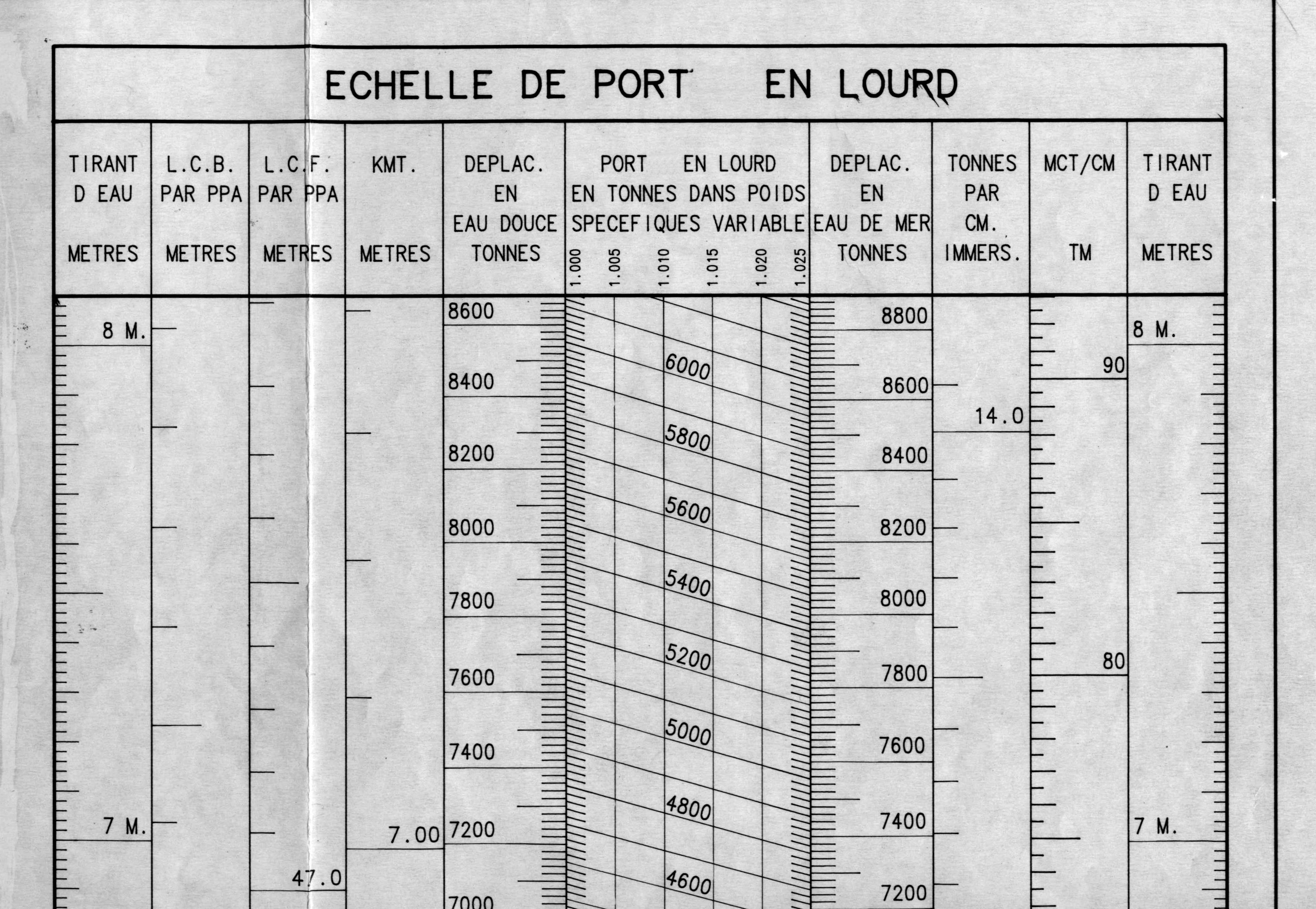 Deadweight data for a 6000 tonne cargo vessel.